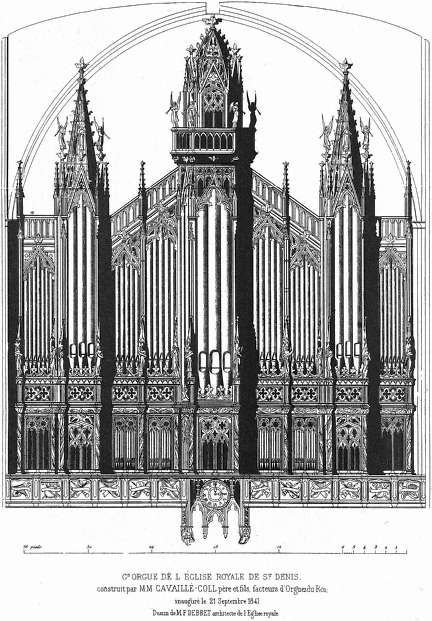 Organ of Saint-Denis: Façade